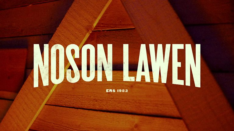 Logo for Welsh show.